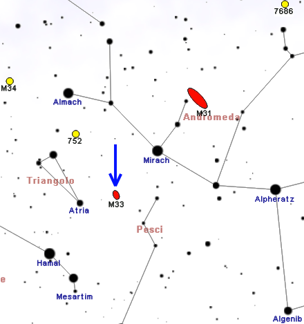 M33